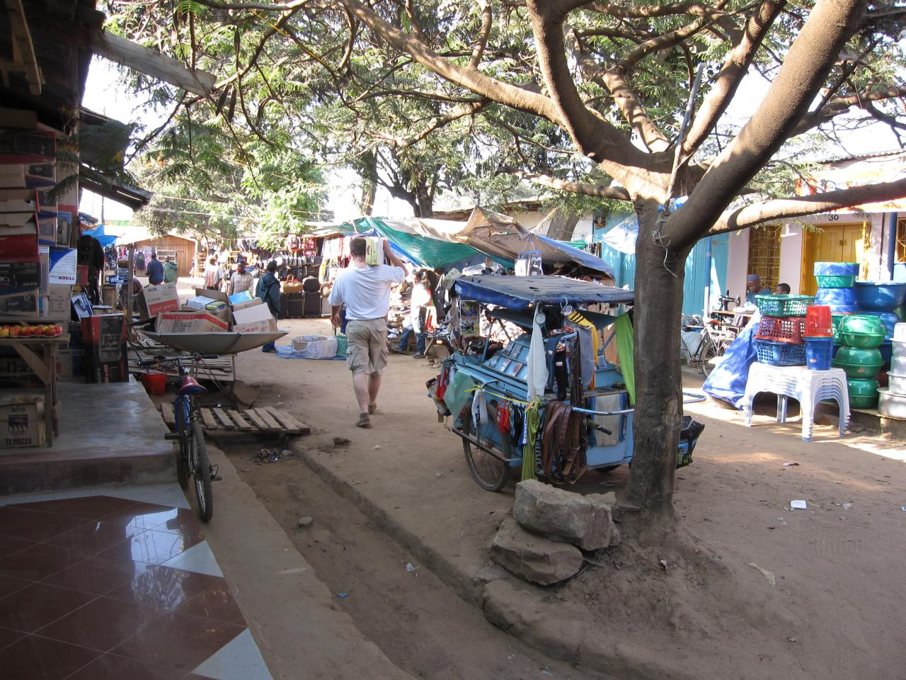 Sumbawanga Market, Tanzania